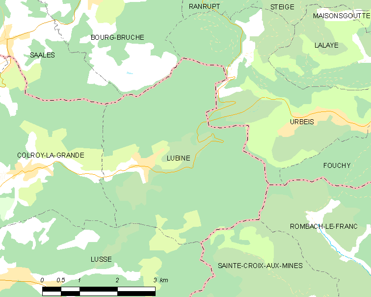 Map of French municipality Lubine